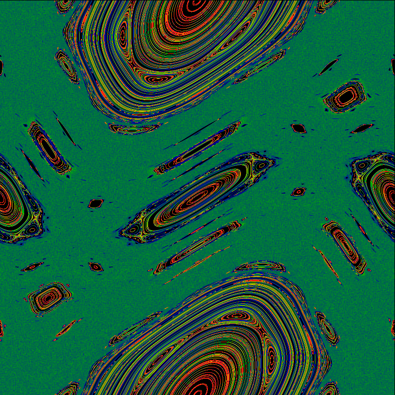 Image of the Chirikov standard map for K=1.2